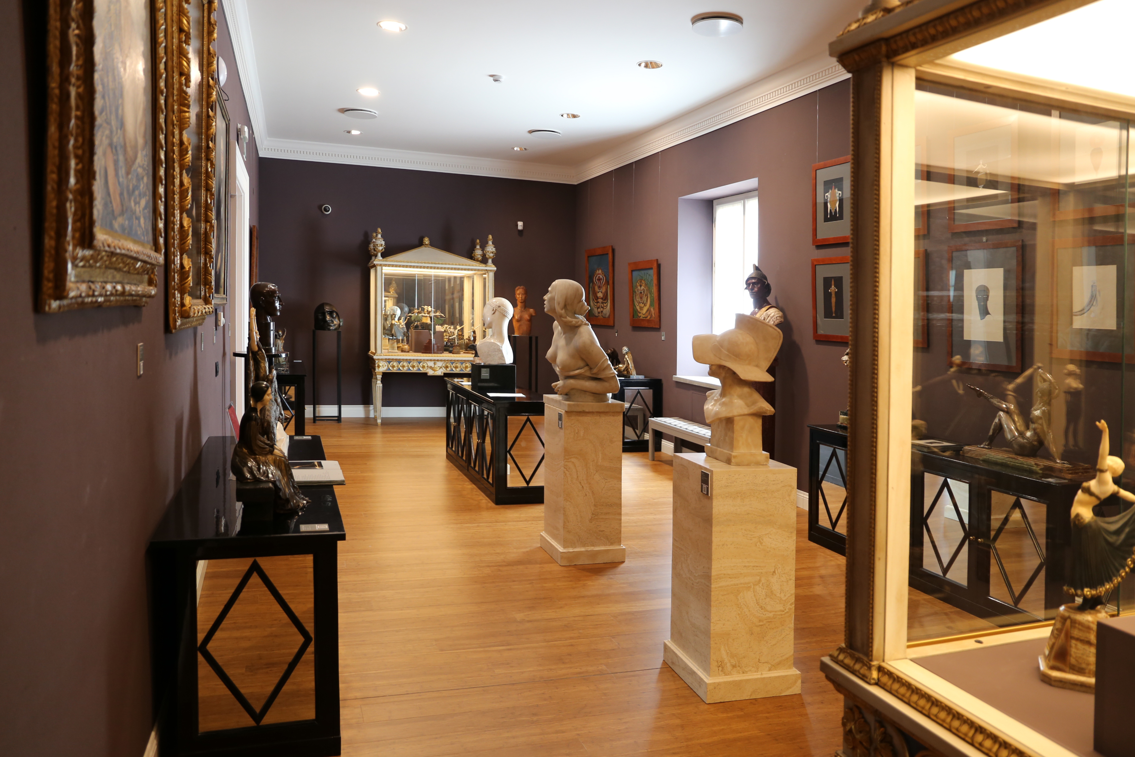 Franco Maria Ricci's collection